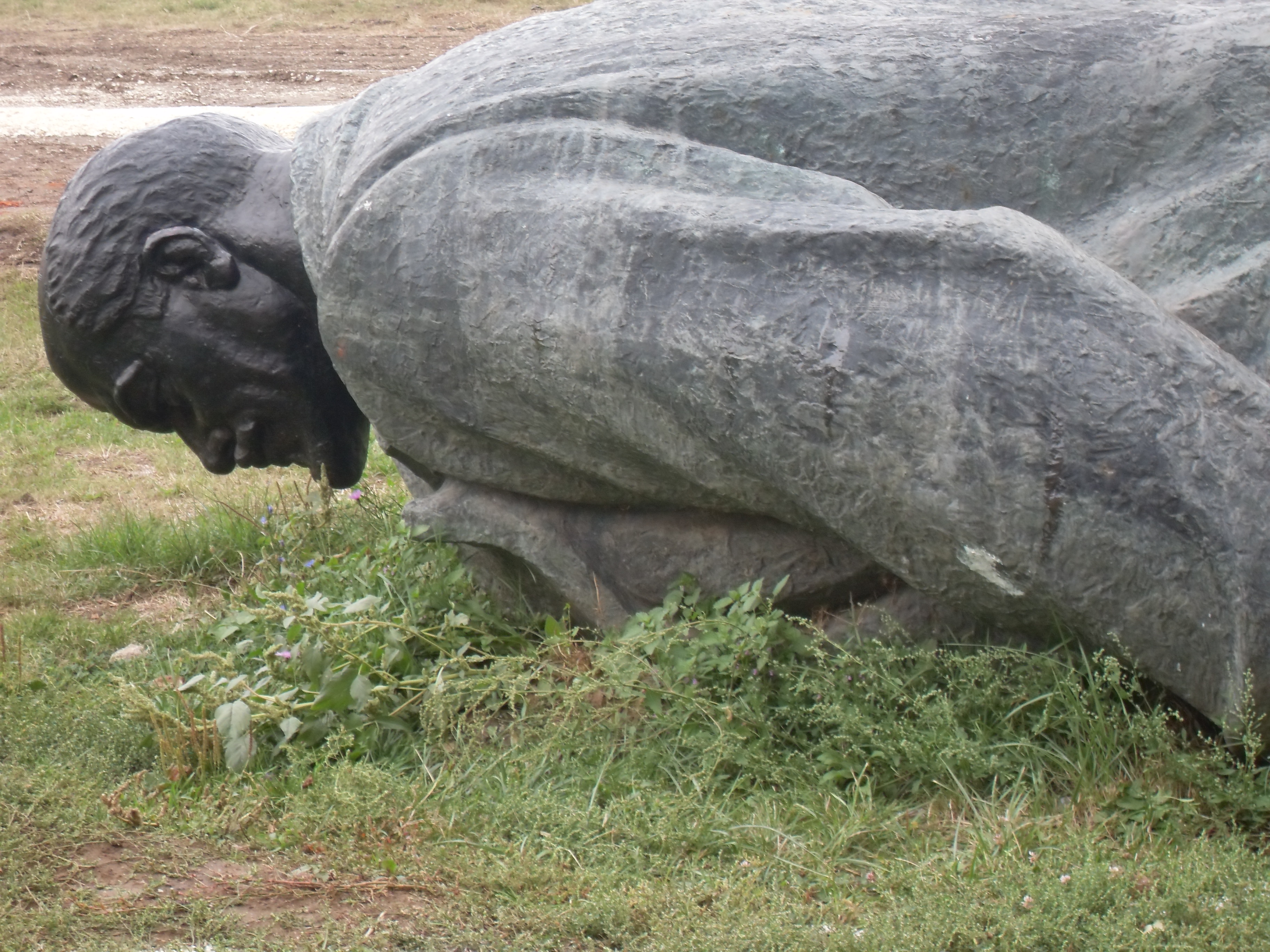 Fallen statue of Lenin next to the Mogoşoaia Palace.